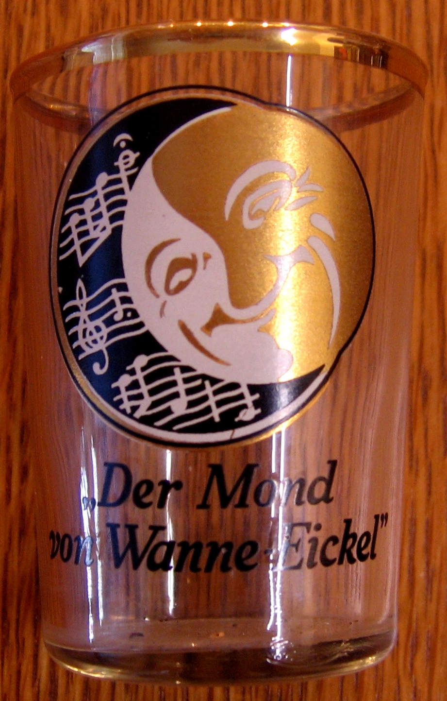 Souvenir beaker Der Mond von Wanne-Eickel (the moon at Wanne-Eickel) gold-rimmed drinking glass.